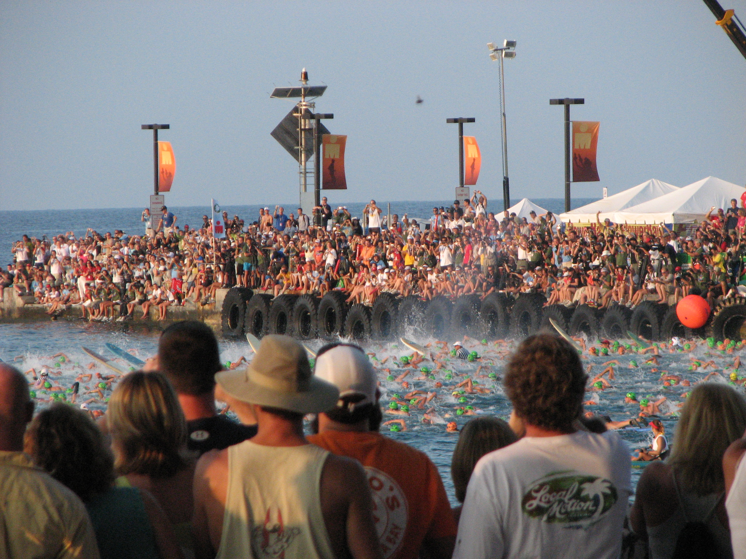 Swimmers compete against one another to claim the title of Ironman in the 2008 World Ironman Competition finals in Hawaii.